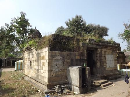 Temple pciture of Madhuranthaga Soleeswarar Tholudure